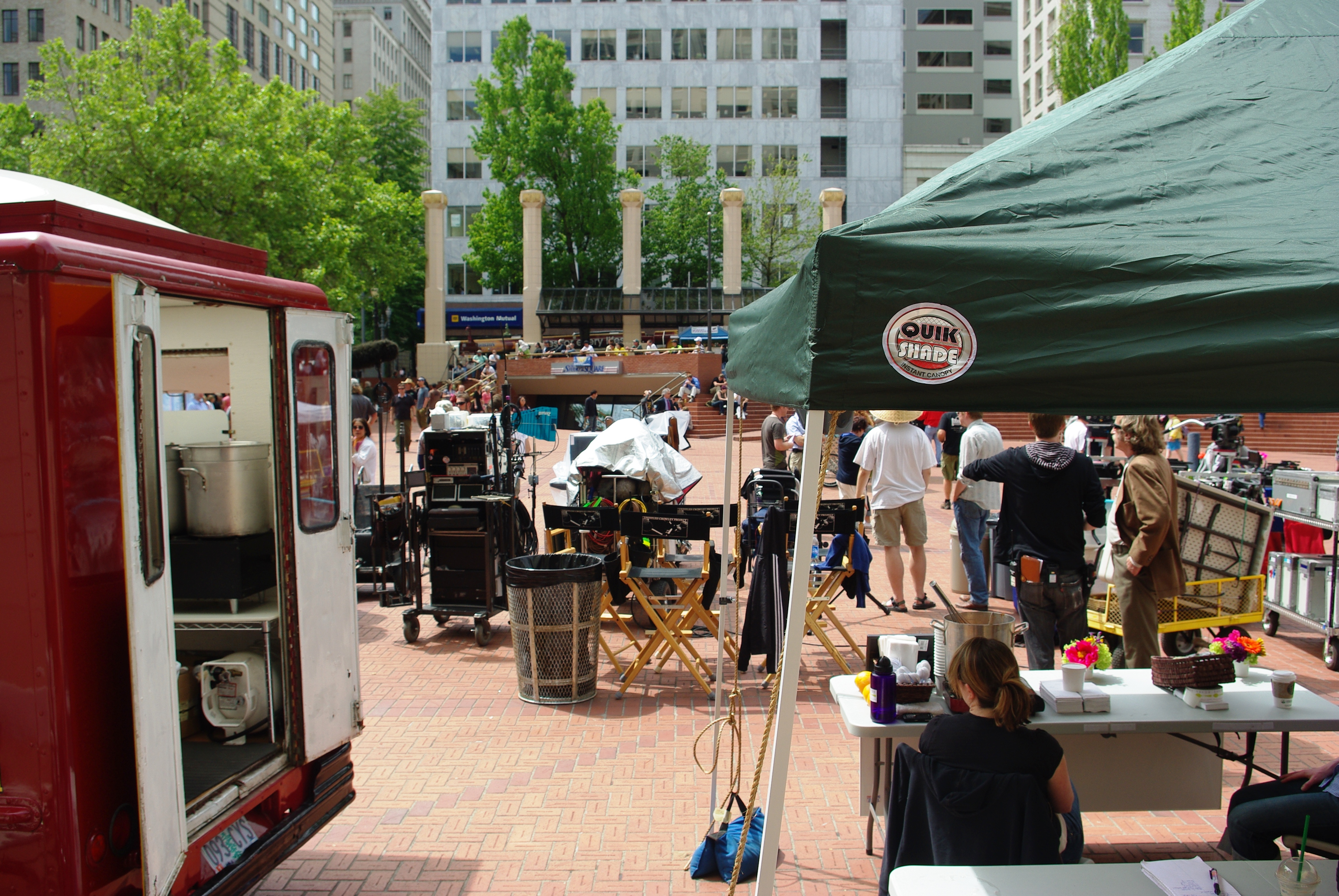 Behind the scenes look at Extraordinary Measures while filming at Pioneer Courthouse Square in Portland, Oregon, USA.